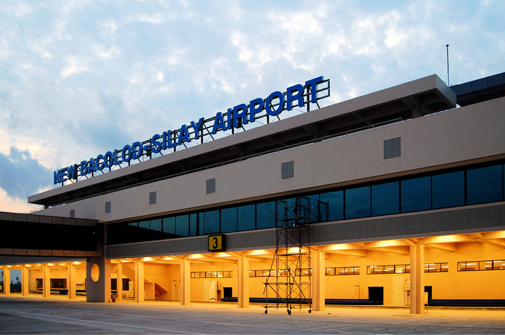 Exterior of the Bacolod-Silay City International Airport